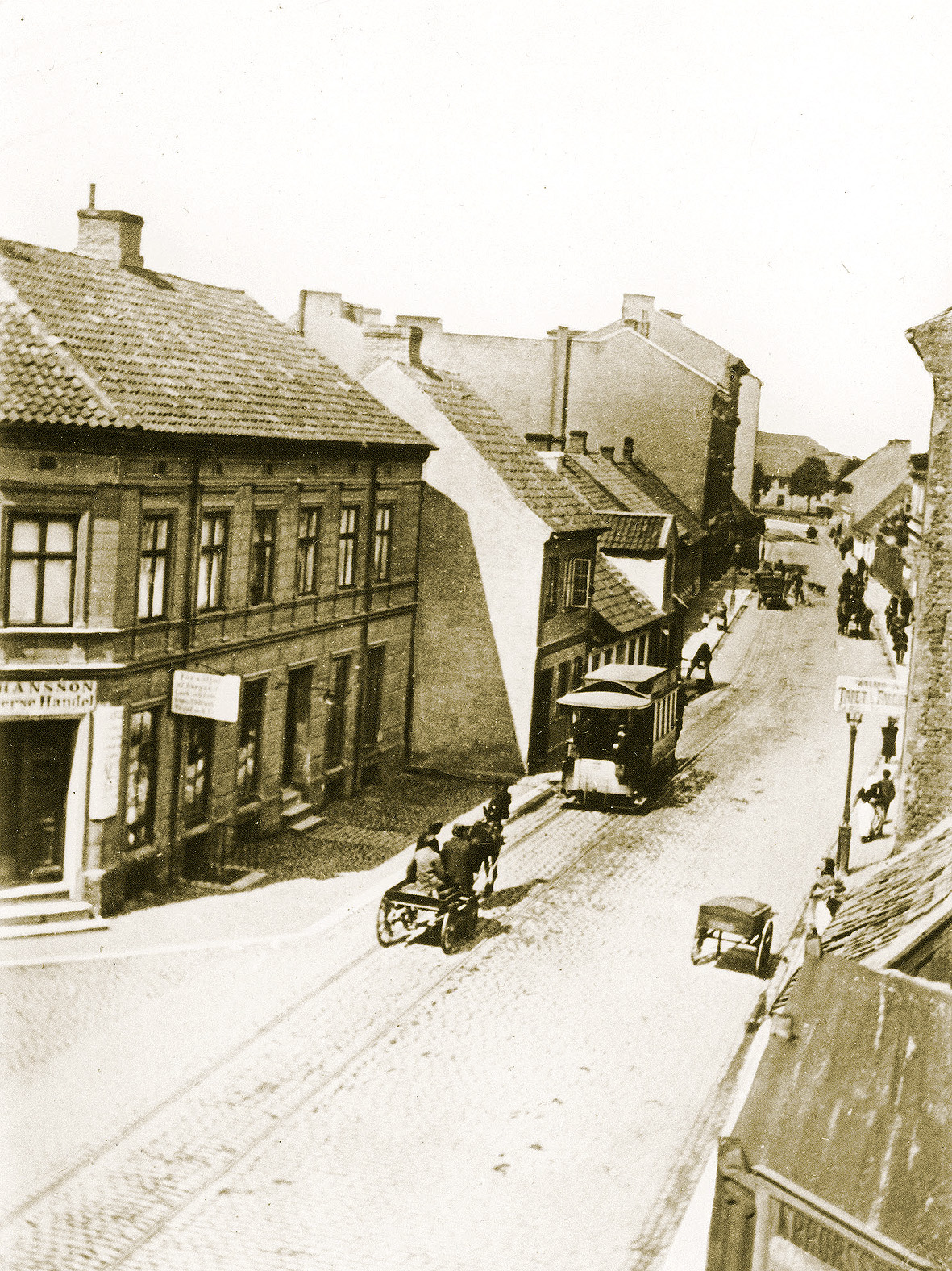 The street Östra Förstadsgatan in the city of Malmo about 1890.